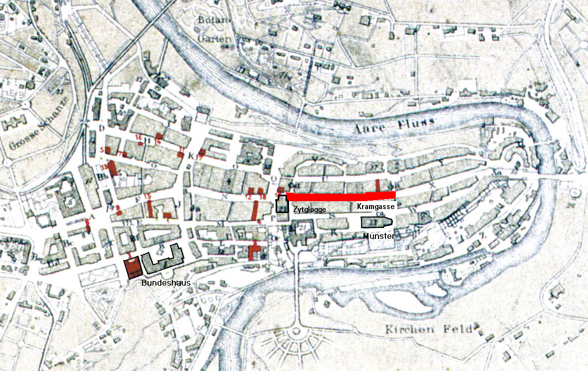 City plan of Bern, 1882. Scanned from BERN: Eine Stadt vor 100 Jahren, Bilder und Berichte; Peter Lauenberger, Emil Erne; München 1997; p. 7. Originally from Bern und seine Umgebungen, C.H. Mann, 1882 in the Alpines Museum of Bern. Due to the age of the image, it must be assumed that the author has been dead for more than 70 years. Copyright protection has therefore lapsed under Swiss copyright law (Art. 29 par. 3 URG).